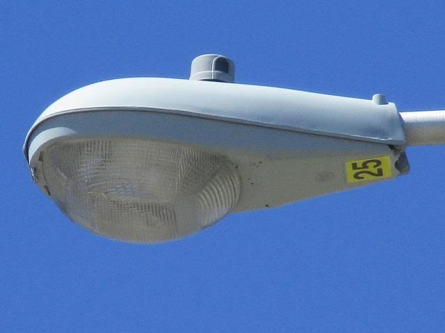 History of street lighting: General Electric M250R2 (1985–present) (50–250 watts)